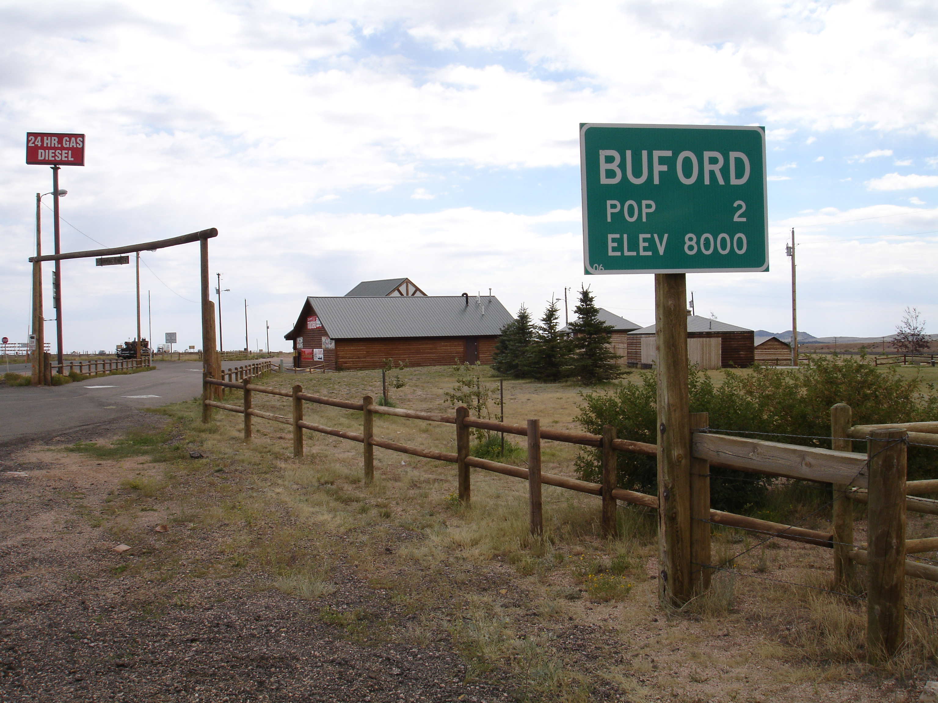 Street sign of Buford, Wyoming, USA